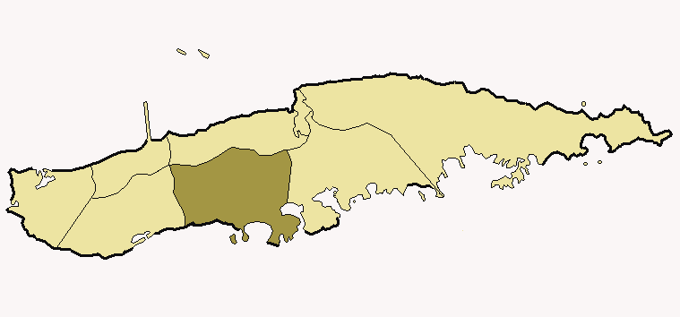 Map of Vieques (Puerto Rico) highlighting Puerto Real ward.